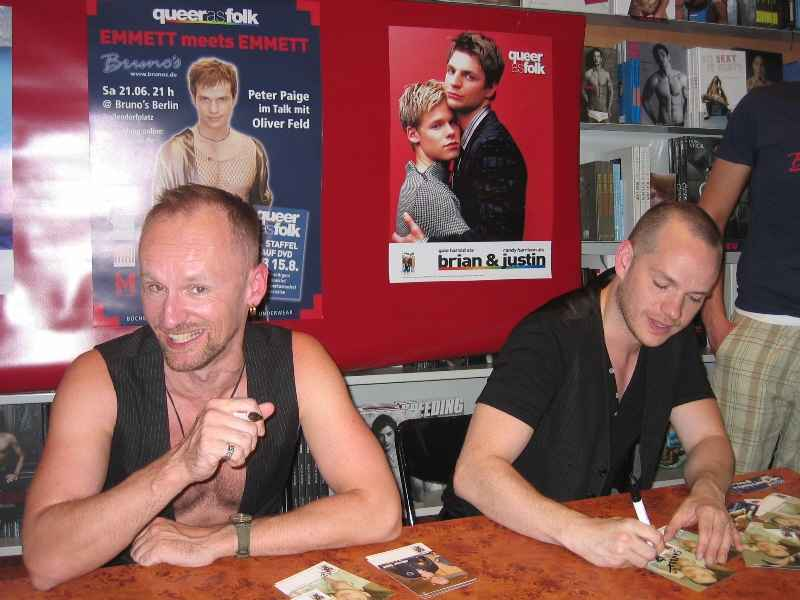 Peter Paige and Oliver Feld, who speaks his role "Emmett" from "Queer as Folk".